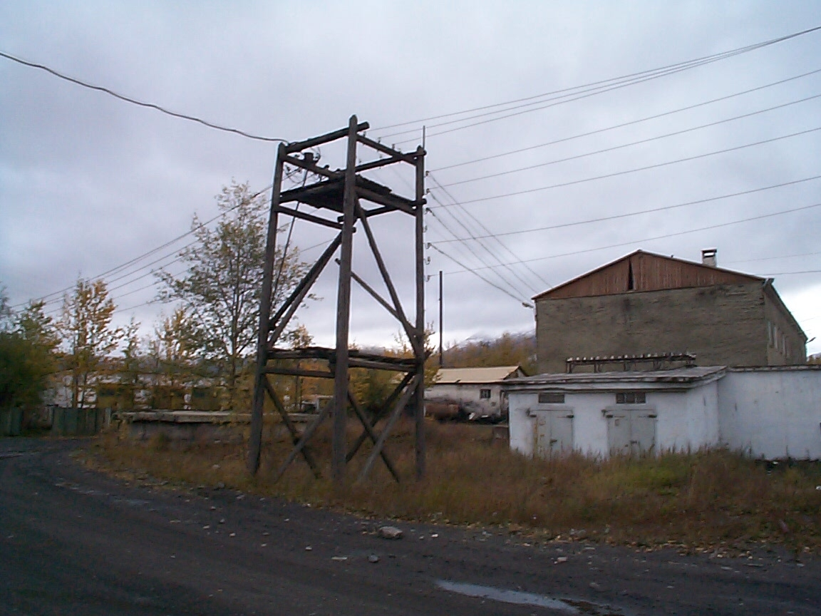 Ust-Omchug electricity substation, Magadan Oblast, Siberia. Photo taken by self (Oxonhutch (talk)) 5 September 2004